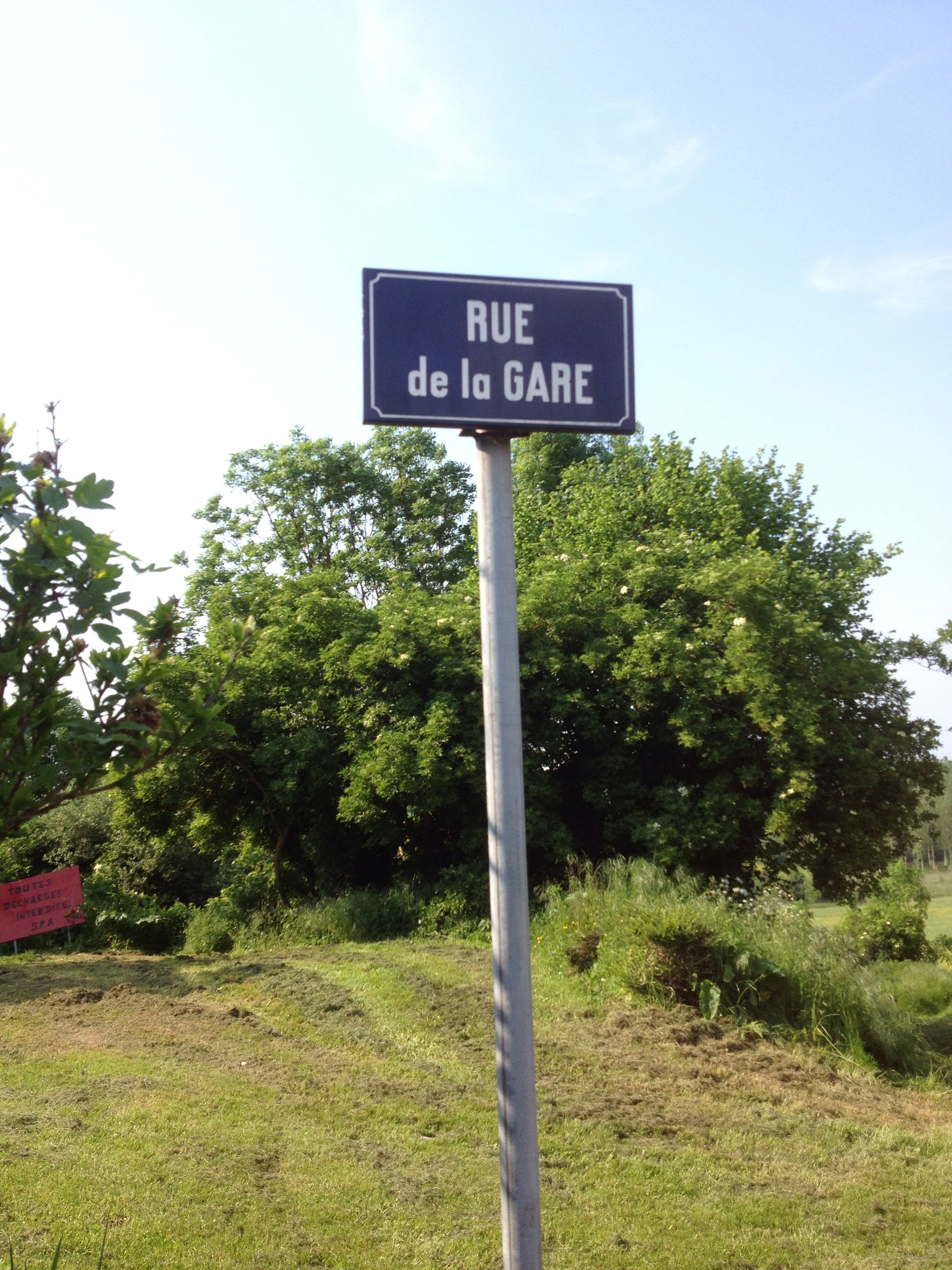 Station pannel in Amigny-Rouy ( Aisne)